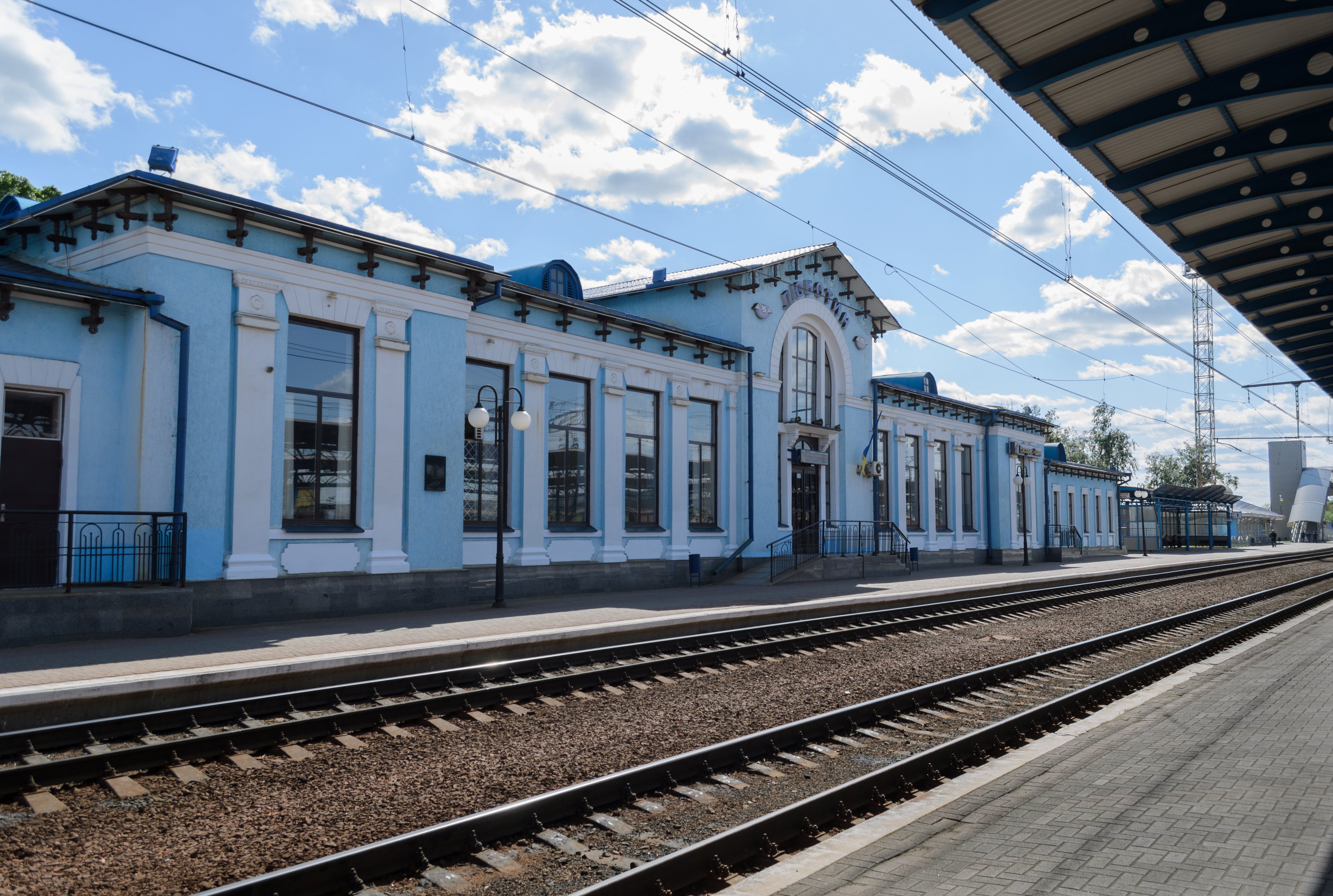 Lyubotyn Train Station